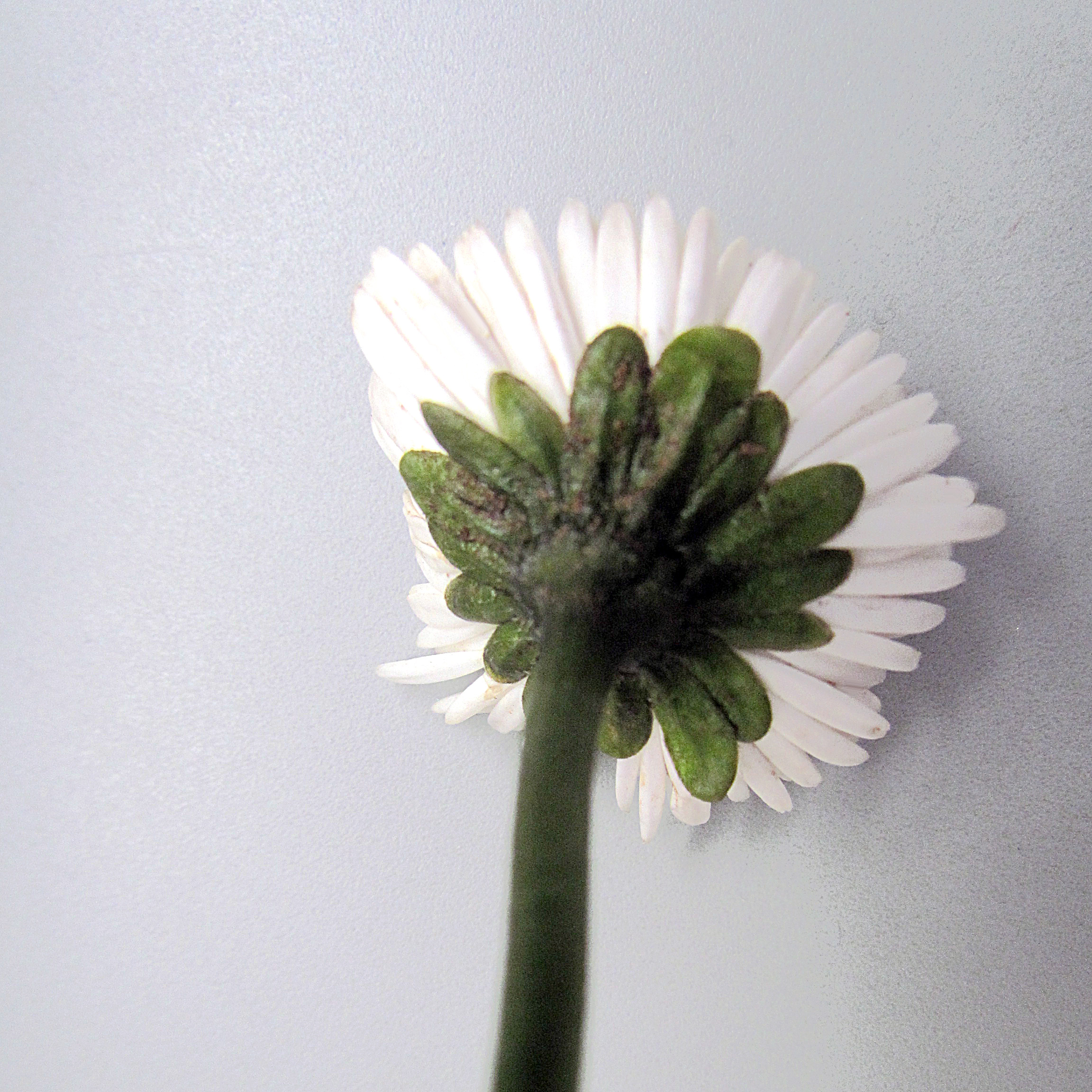 Involucre of Bellis perenis